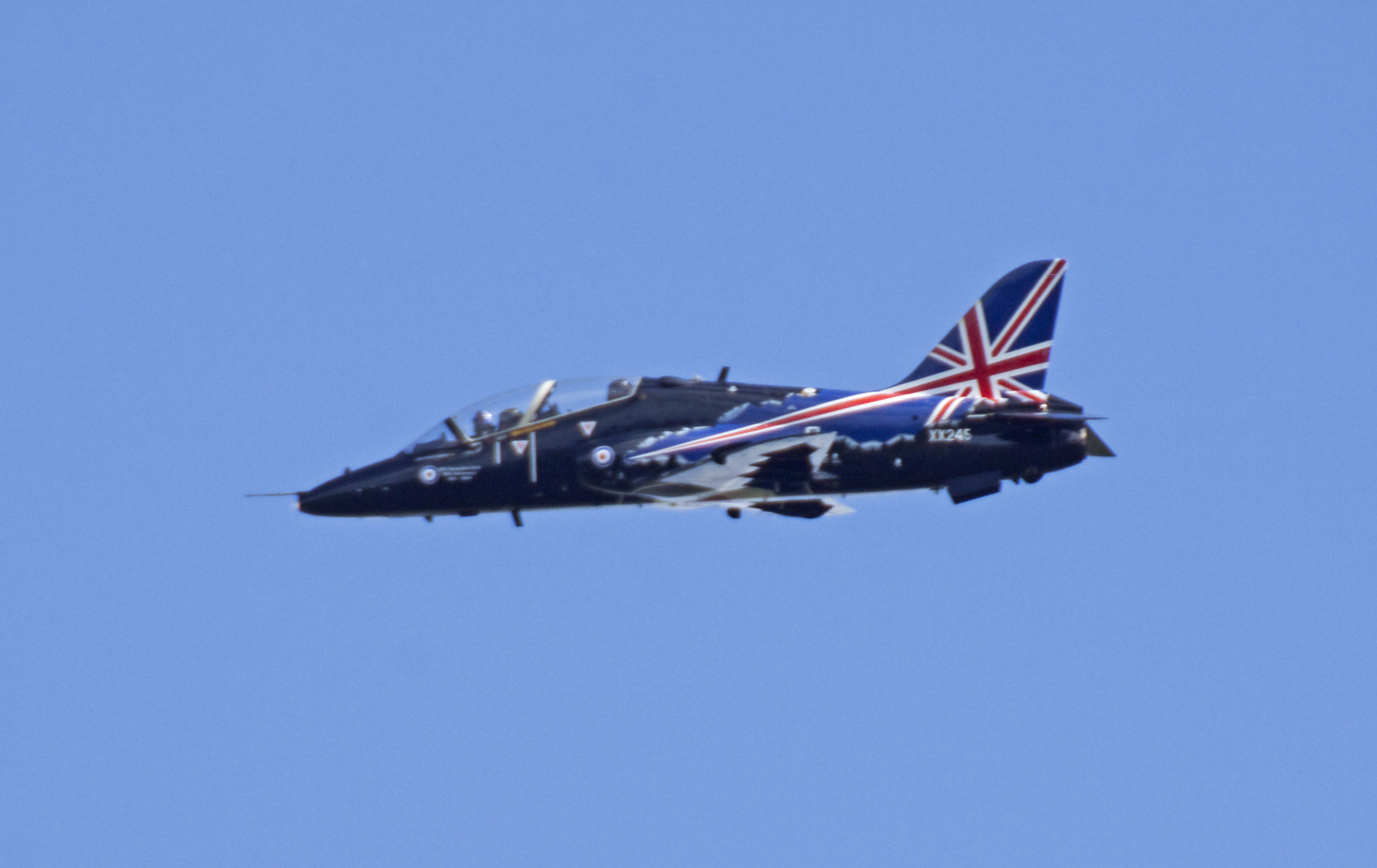 Hawk at the Cosford Air Show 2009.